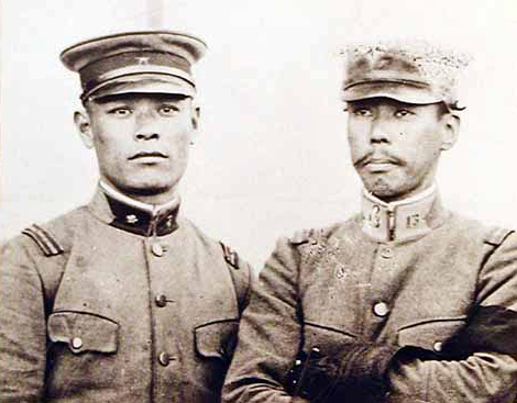 Tokuda Kin'ichi (left) & Kimura Suzushirō (right) They both first lieutenants are victims of the first plane death accident in Japan. A memorial tower with their bronze statues is located in Kōkū-kōen Park, Tokorozawa. (↓date of accident)